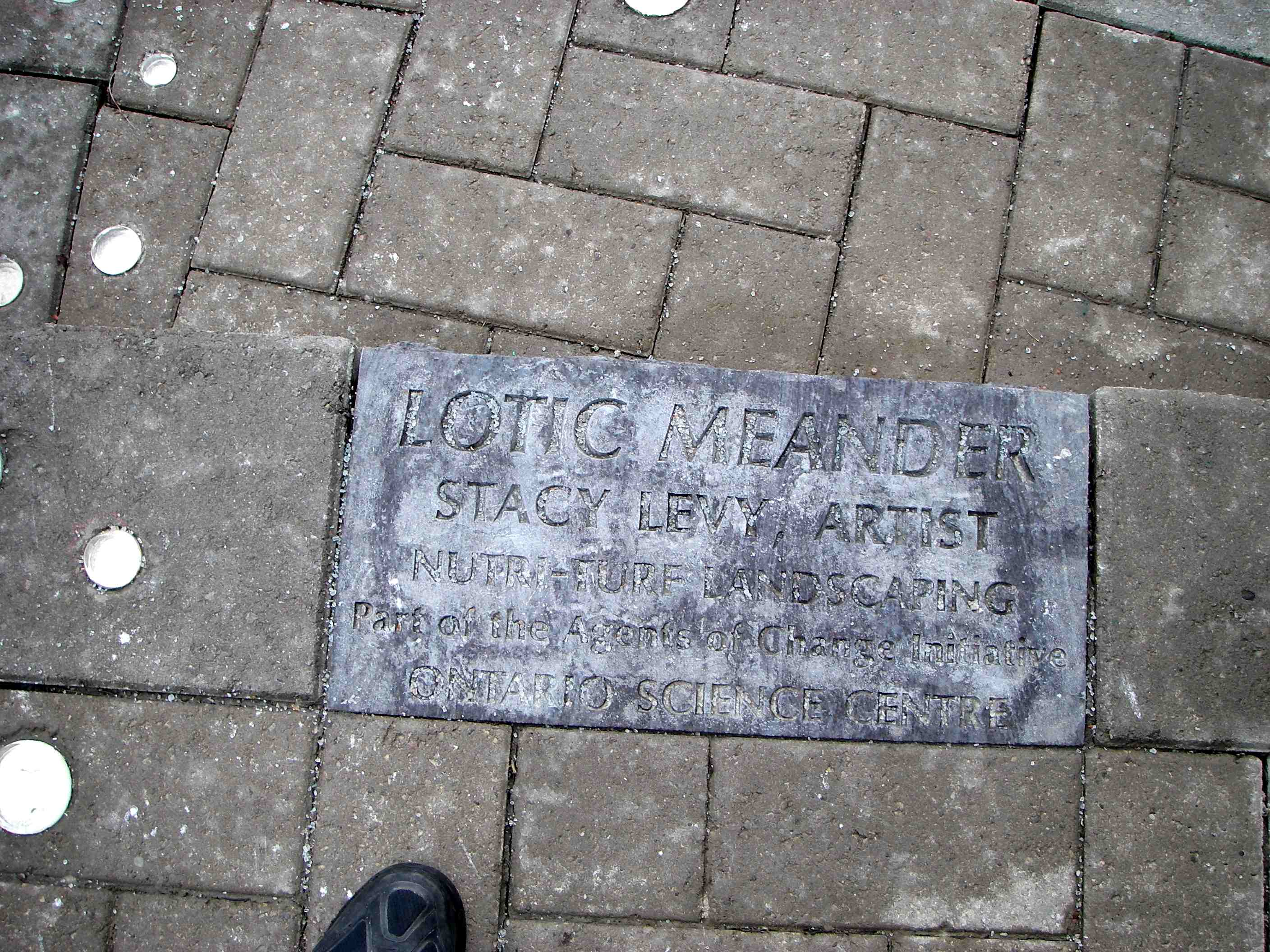 Lotic Meander stone on the day of the public unveiling, Saturday, 2007 March 3rd.